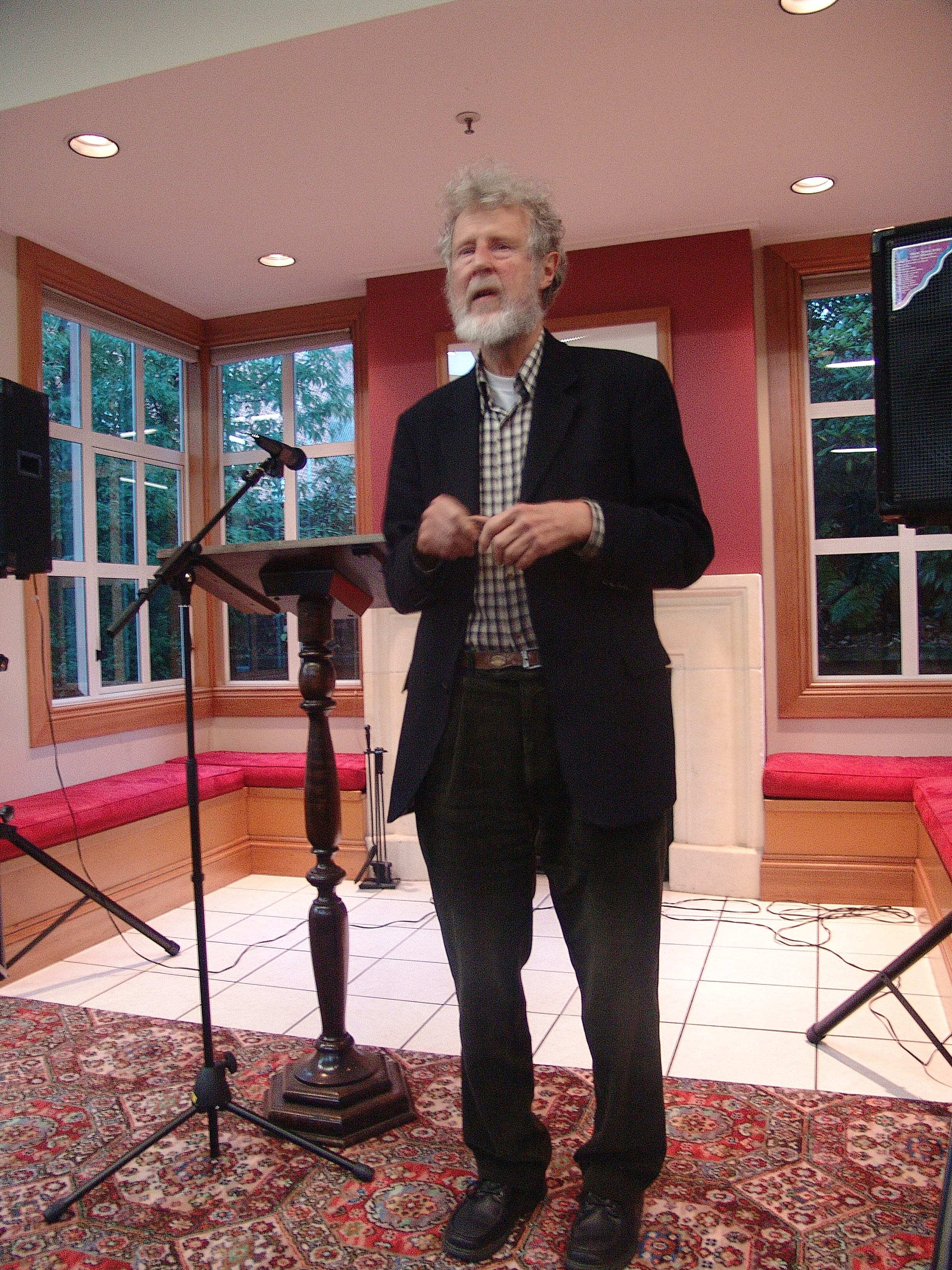 Prof Jim Flynn at the 40th Anniversary of the Political Studies Dept at the University of Otago. June 8, 2007